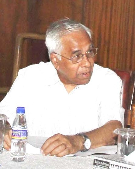 Photo of Bangladeshi historian and educationist Professor Alamgir Muhammad Sirauddin, Dhaka 2016